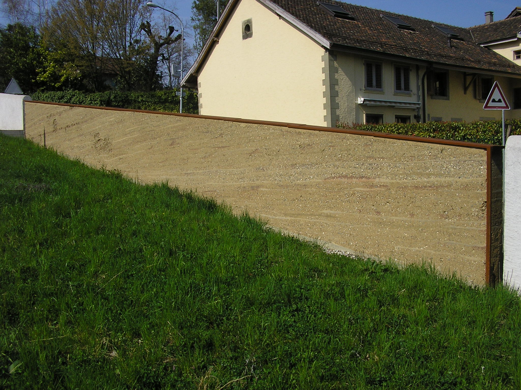 Mur wall, 2007, Confignon (Geneva, Switzerland).